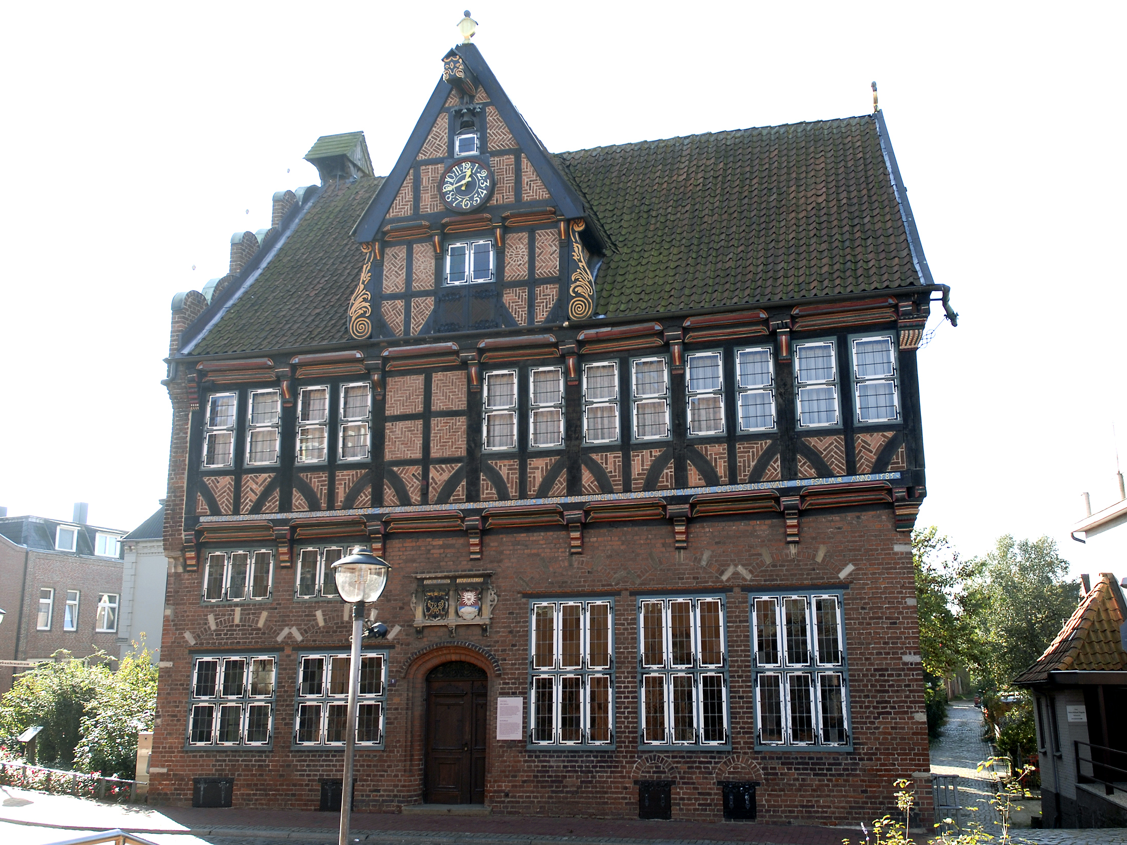 Old town hall of Wilster, Germany